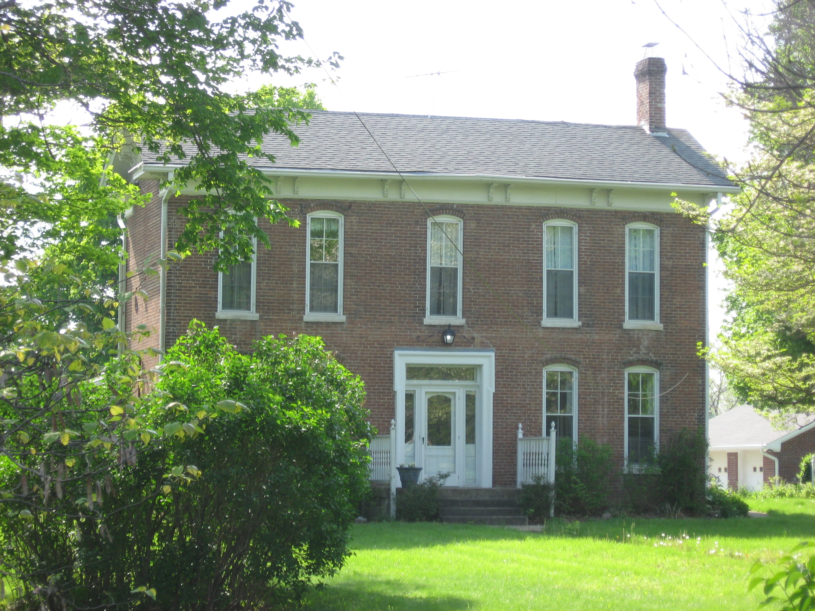 Front of the Noah and Hannah Hadley Kellum House, located at 7290 S. County Road 1050E near Friendswood in Guilford Township, Hendricks County, Indiana, United States. Built in 1872, it is listed on the National Register of Historic Places.